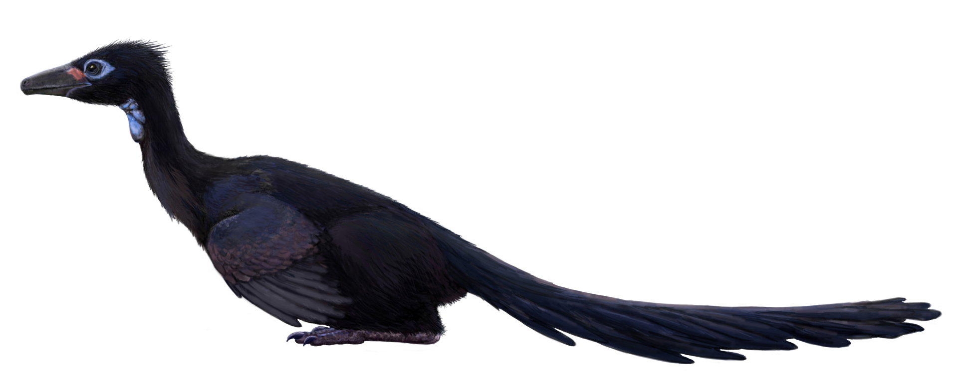 Restoration of Xixiasaurus henanensis in bird-like resting pose. Based on photos in the scientific description[1] and proportions of related species.